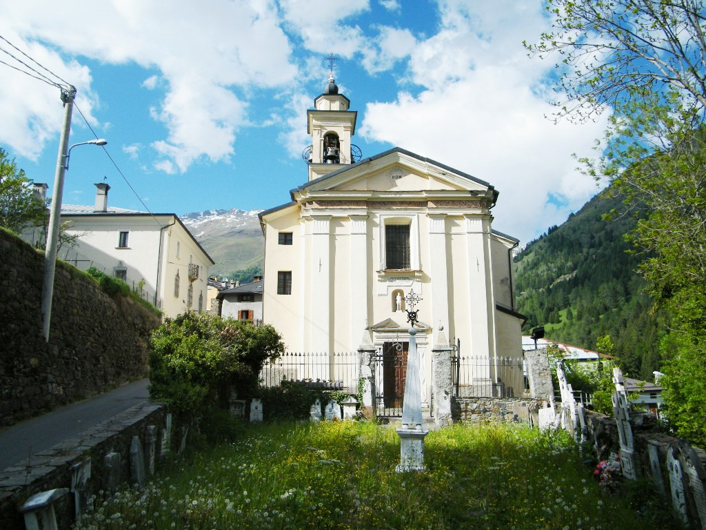 Church of St. Fabian and Sebastian. Precasaglio, Ponte di Legno, Val Camonica